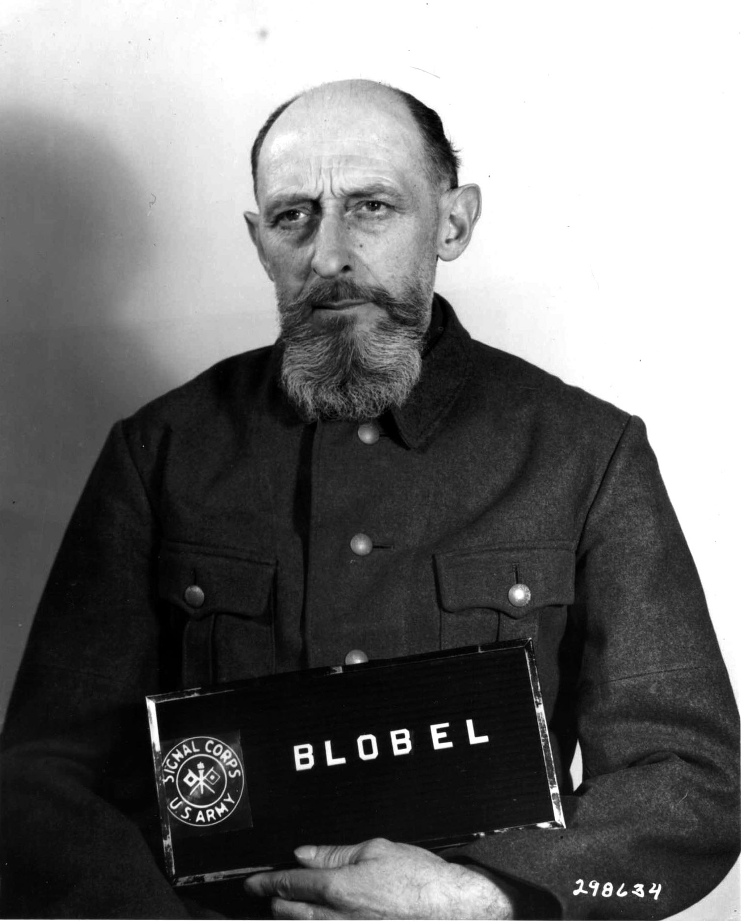 Paul Blobel, former commanding officer of sonderkommando 4a of 'einsatzgruppe C'